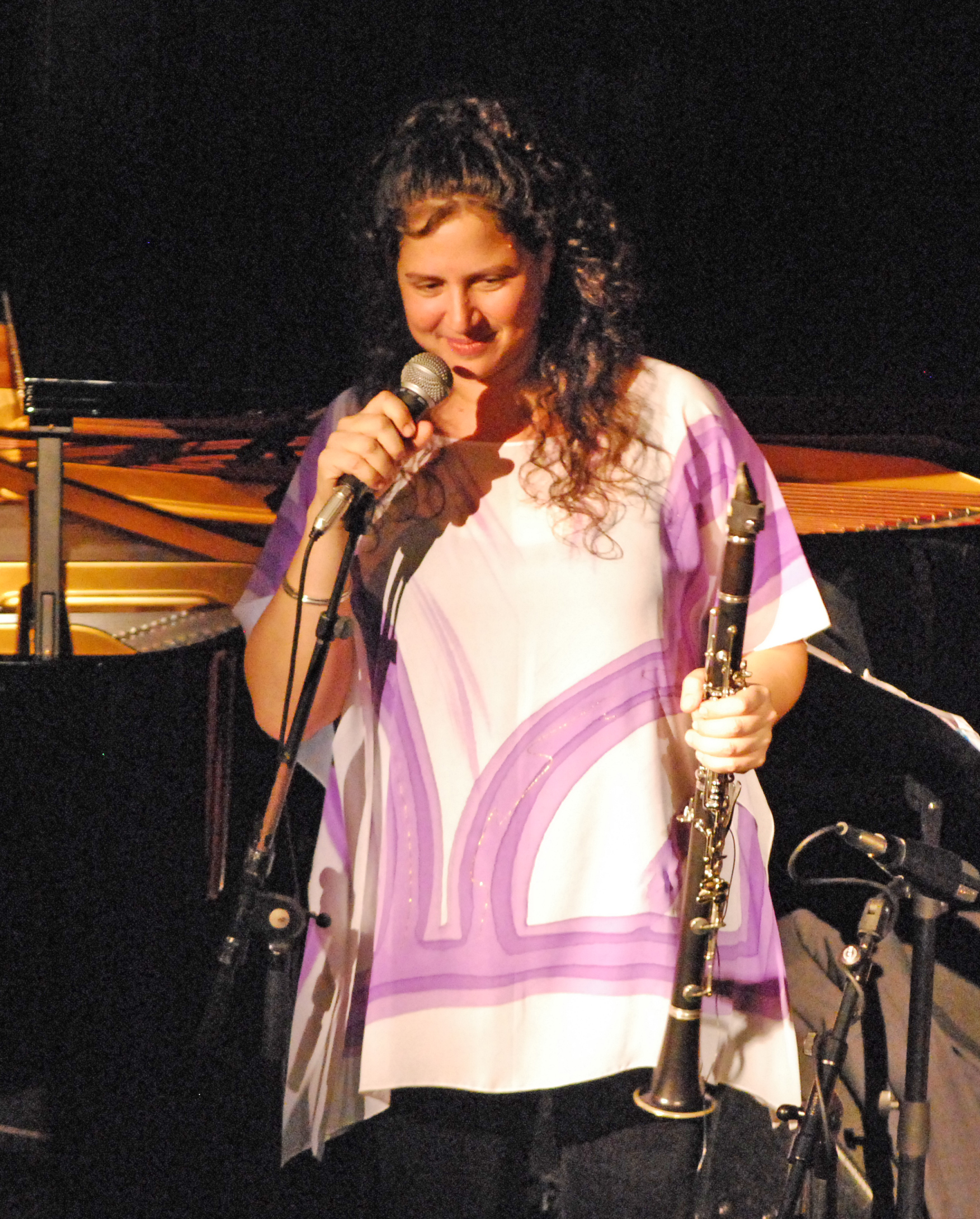 Anat Cohen at a concert at Treibhaus Innsbruck, 2009